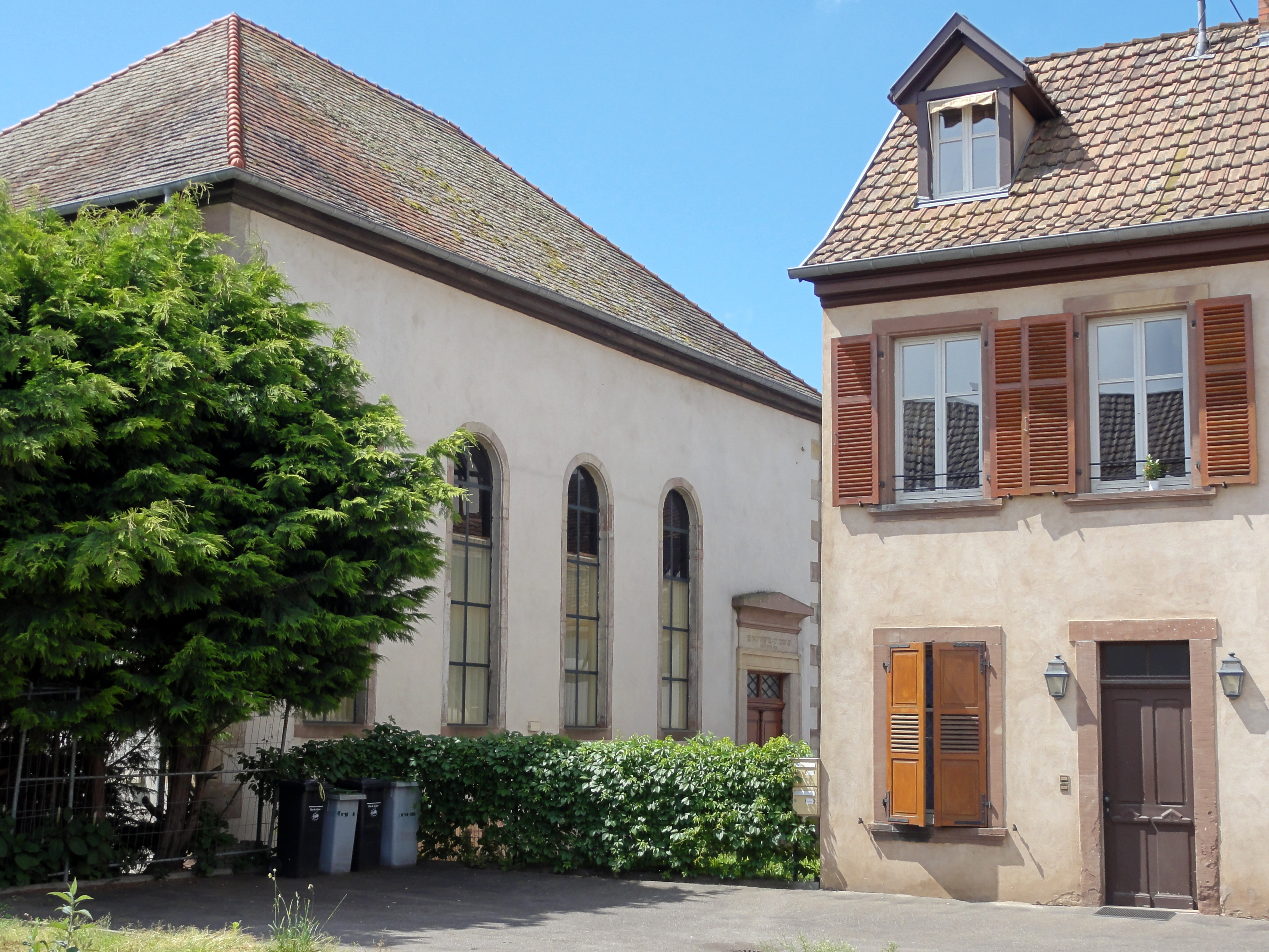 Alsace, Bas-Rhin, Hochfelden, Synagogue (1841). It is indexed in the Base Mérimée, a database of architectural heritage maintained by the French Ministry of Culture, under the references PA67000004 and IA67009236.